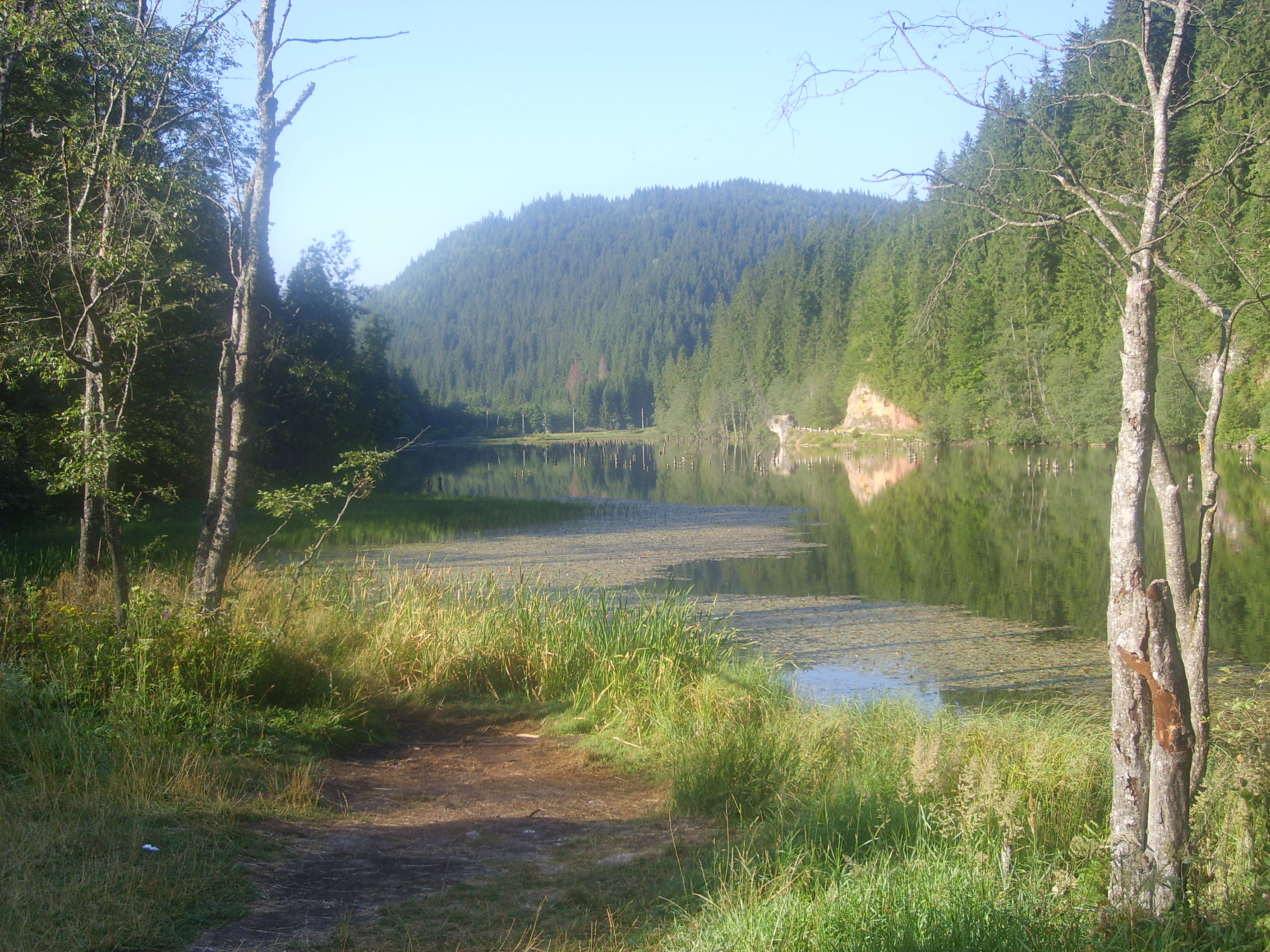 A view of Lacu Roşu, a lake in Harghita County of Romania, as seen from a walking path.